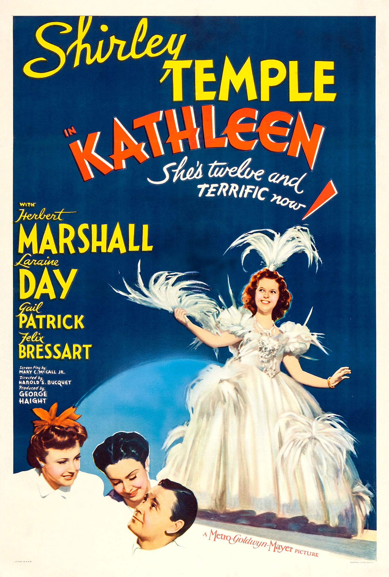 Poster for the 1941 film Kathleen. The item has no copyright markings on it as can be seen in the link above. At bottom is Litho in USA and Tooker Litho Co., NY-they printed the poster.